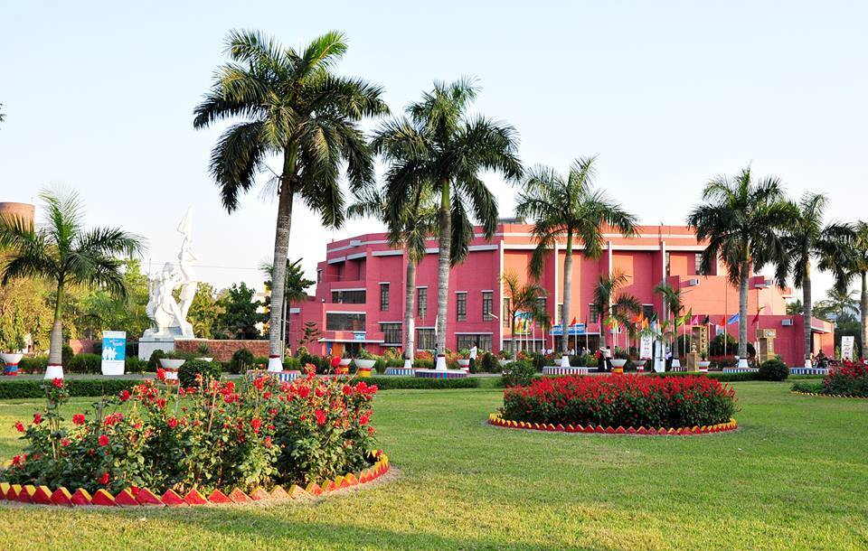 University